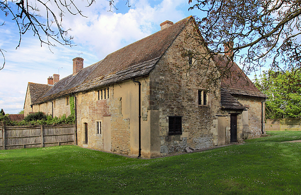 Fiddleford Manor House (2) A view showing the other side of the medieval manor house in the foreground, with the later C16 rebuild beyond.